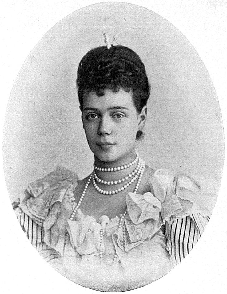 Grand Duchess Xenia Alexandrovna of Russia